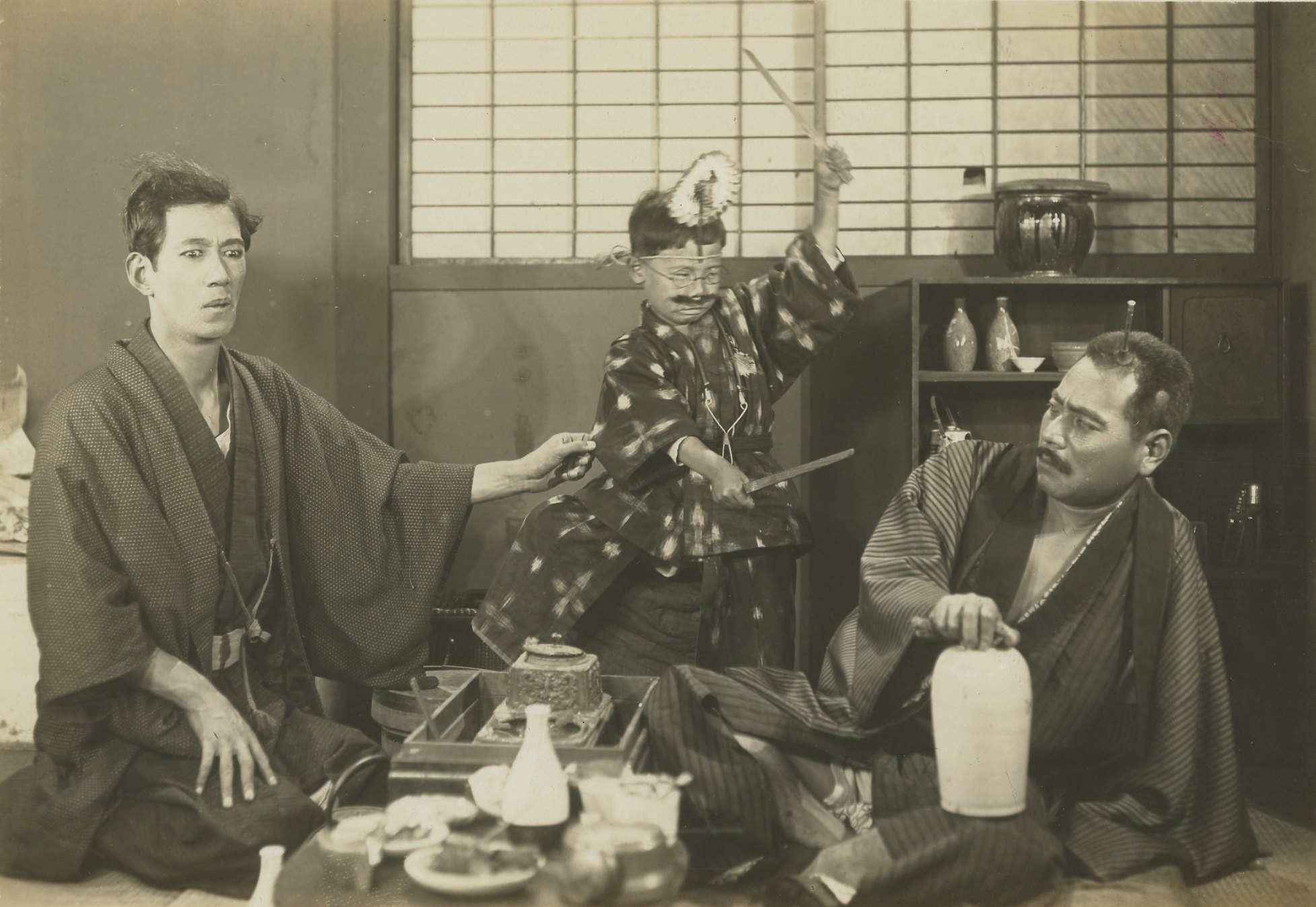 Tatsuo Saitō, Tomio Aoki and Takeshi Sakamoto in Tokkan kozō (1929)